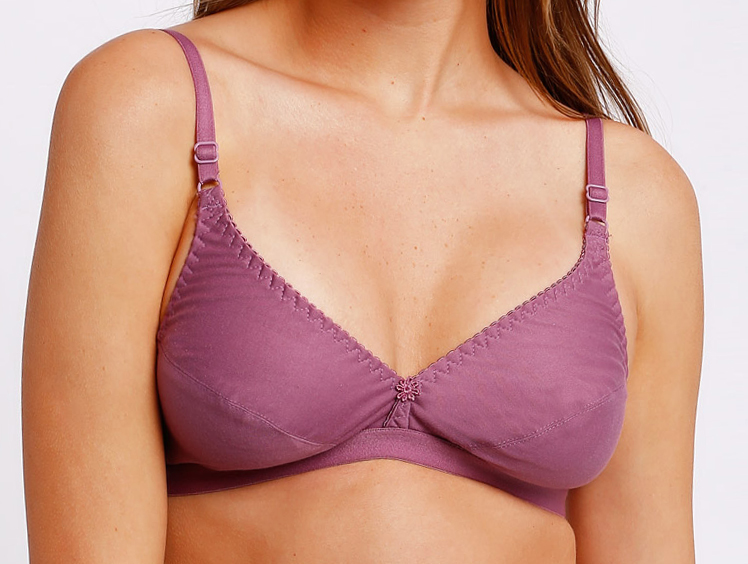 Woman wearing a purple soft-cup bra.